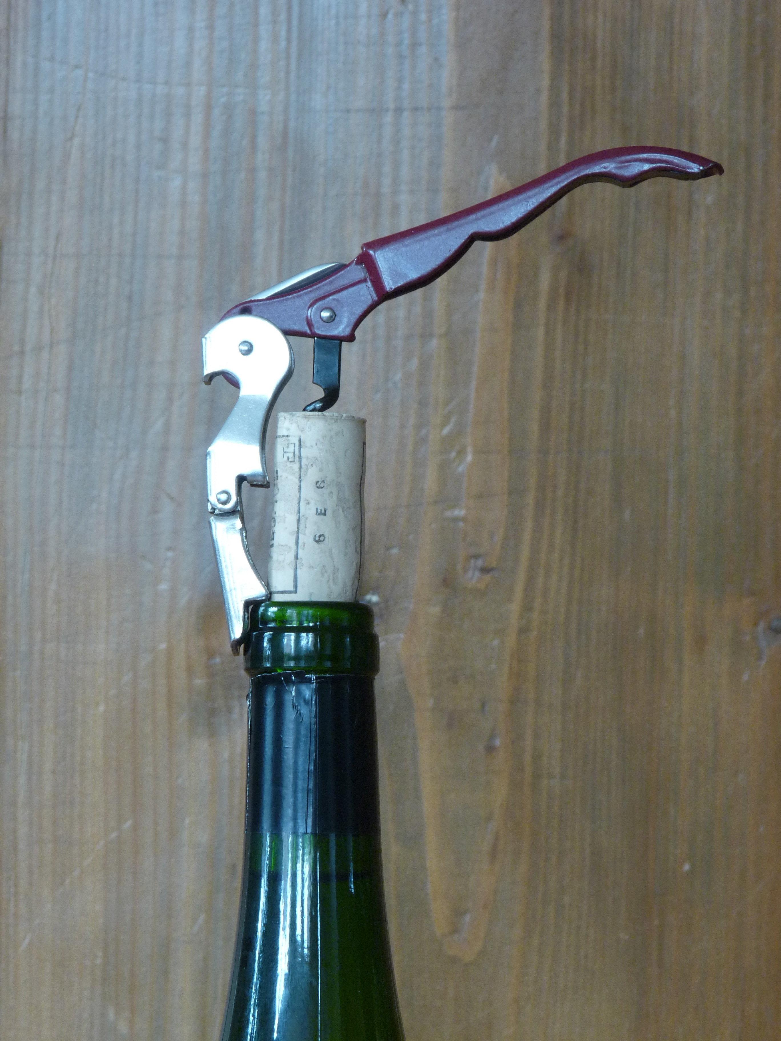 Two-step corkscrew phase 4